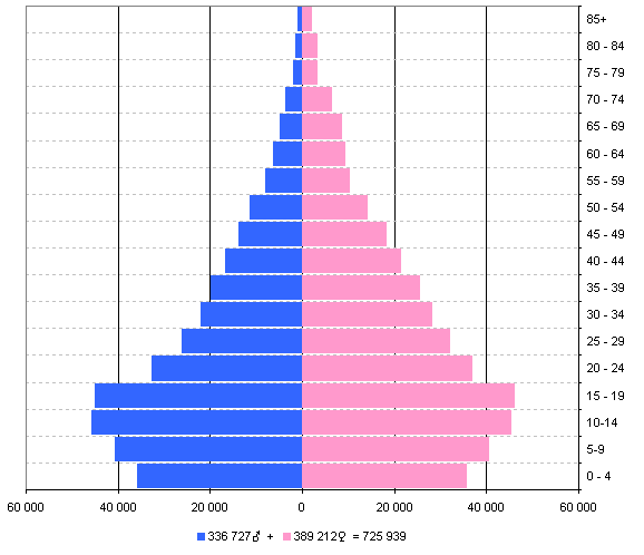 Chart showing age distribution of the district.